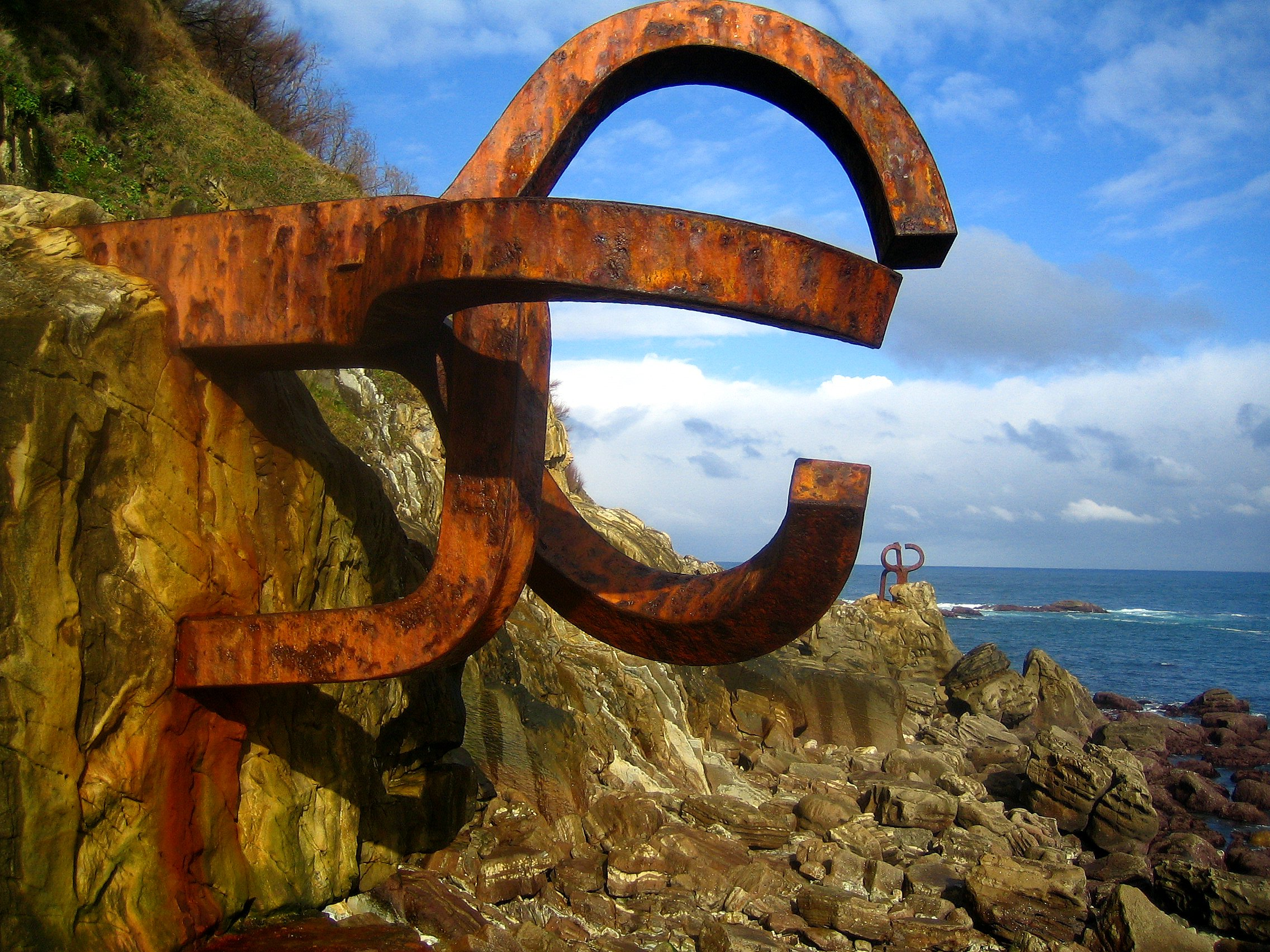 El Peine, de los vientos